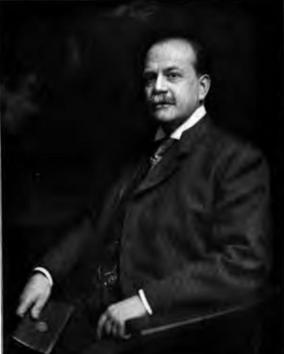 screen shot from Mrs. Eddy and the Late Suit in Equity by Michael Meehan ebook